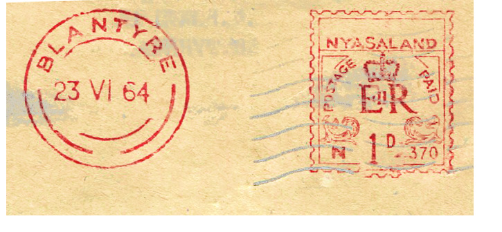 Meter stamp catalog image, Malawi type B3